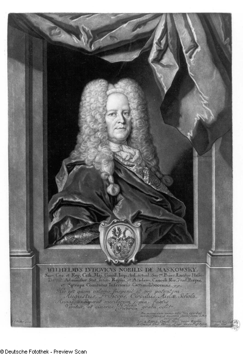 Wilhelm Ludwig von Maskowsky hessian politician